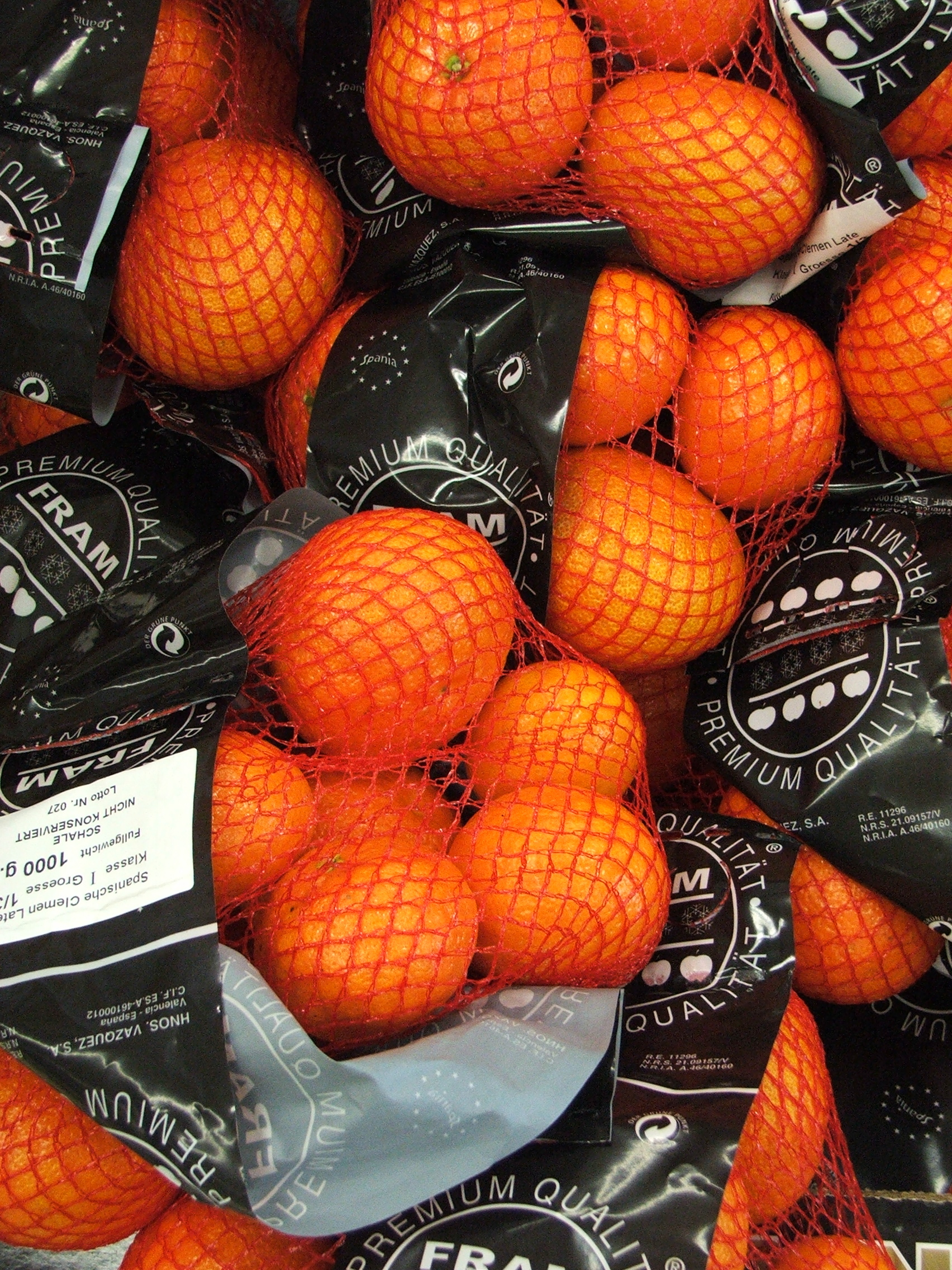 Oranges (Citrus sinensis) packed for commercialization